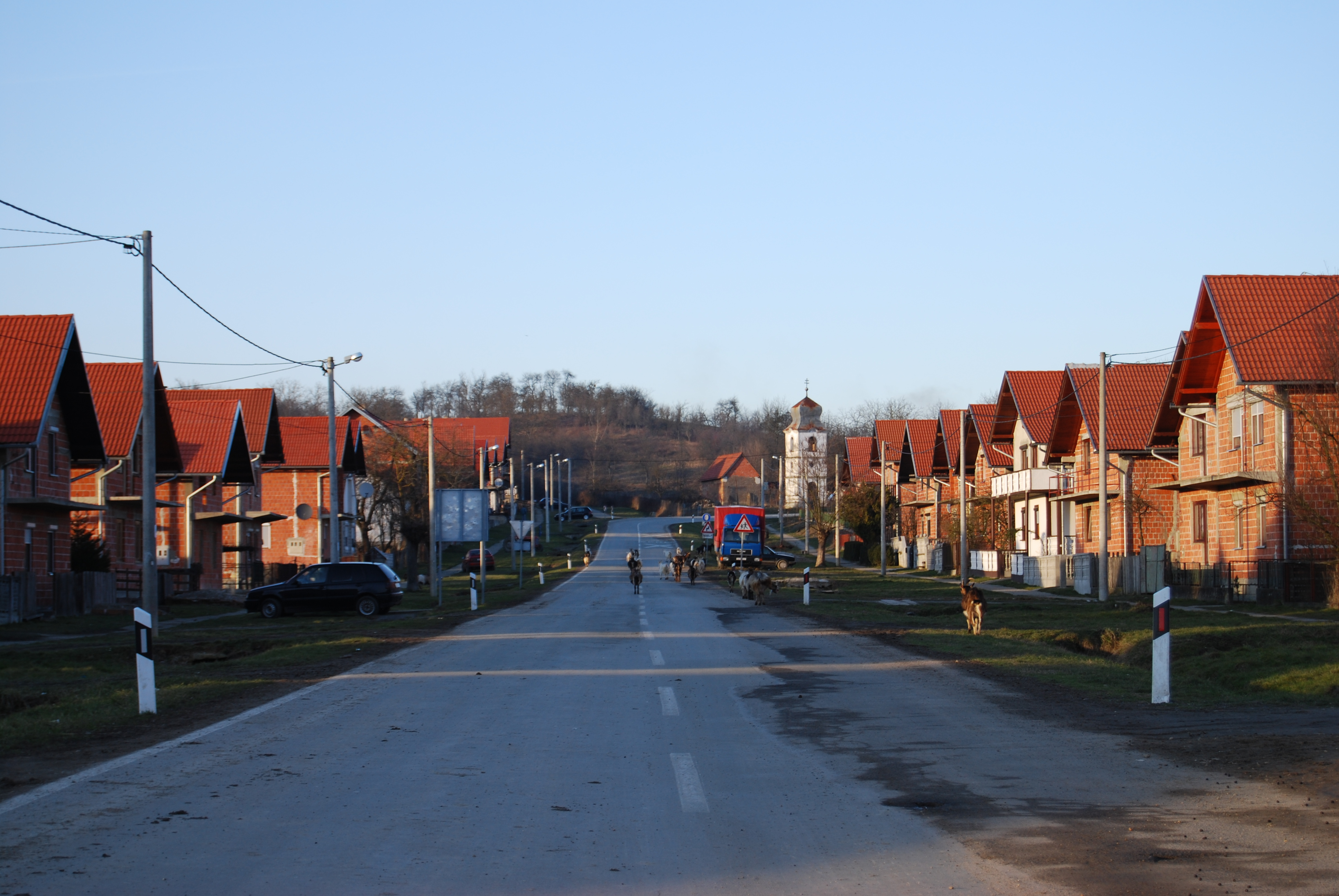 Street in Čeralije village, Croatia